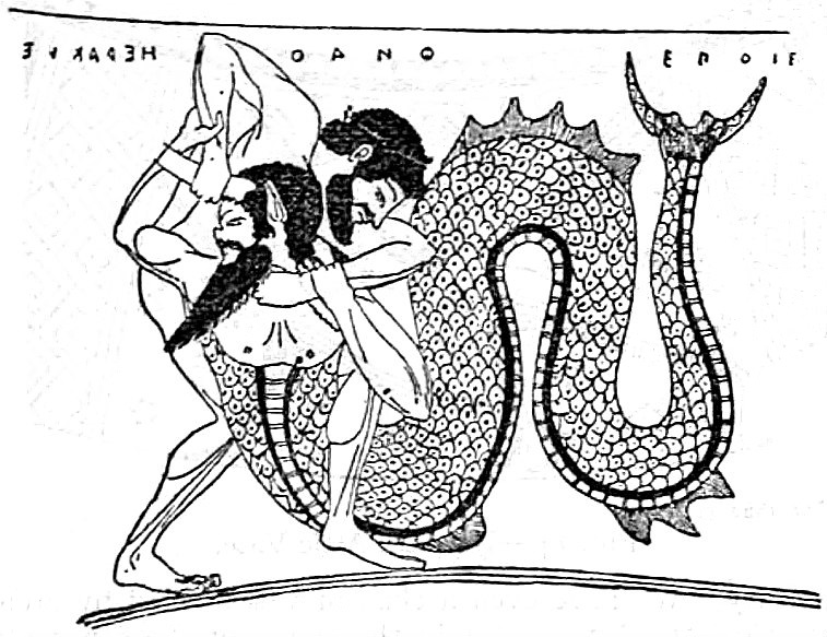 A group by the painter Pamphaeus from a stamnos in the British Museum (No. E437) representing Heracles wrestling with the river-monster Achelous, which belongs to the age of the Persian Wars.